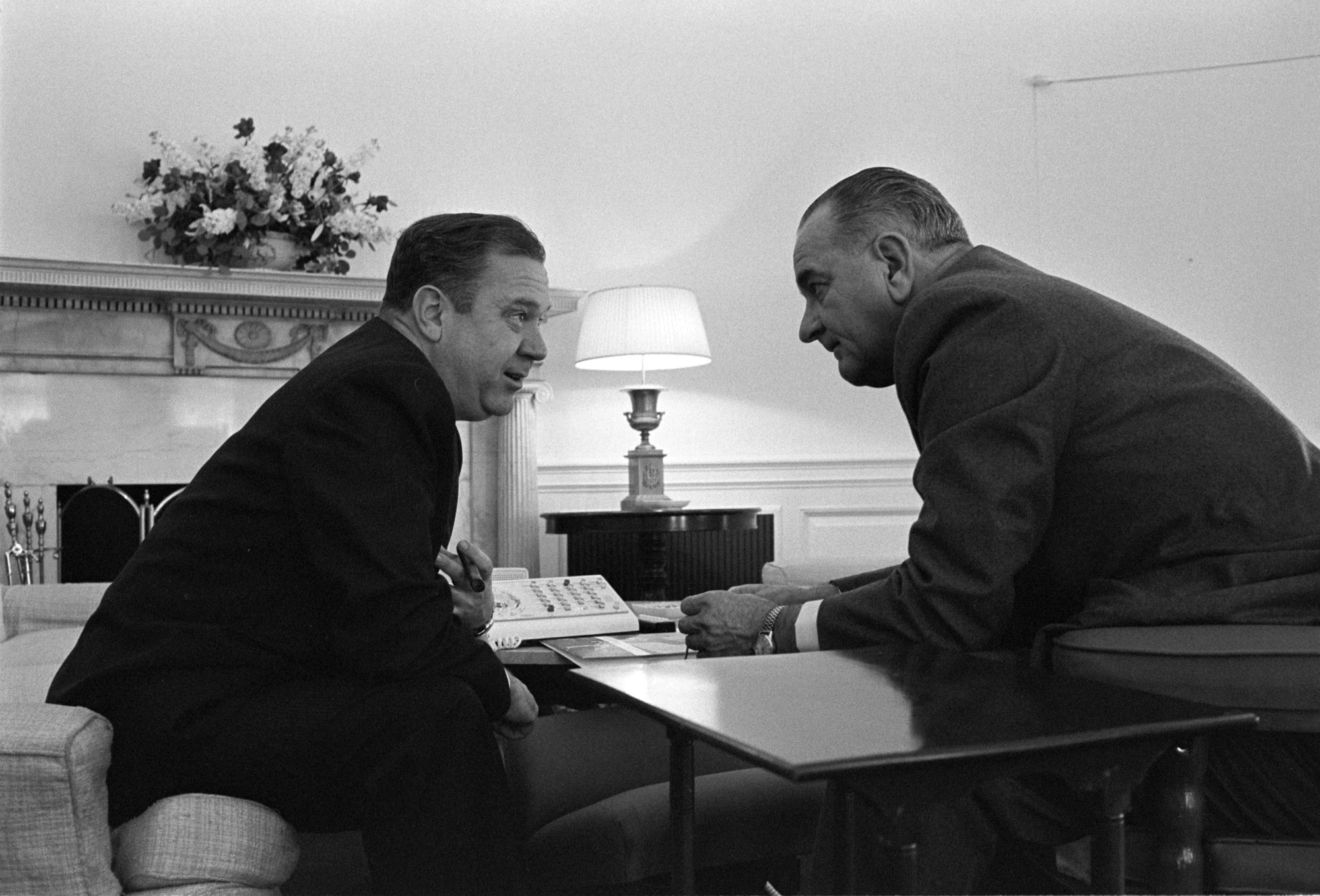 L-R: Sen. Russell Long and President Lyndon B. Johnson during a conversation in the Oval Office